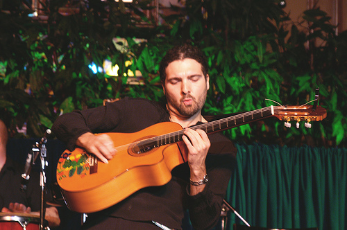 Johannes Linstead perfoms live in Bahrain